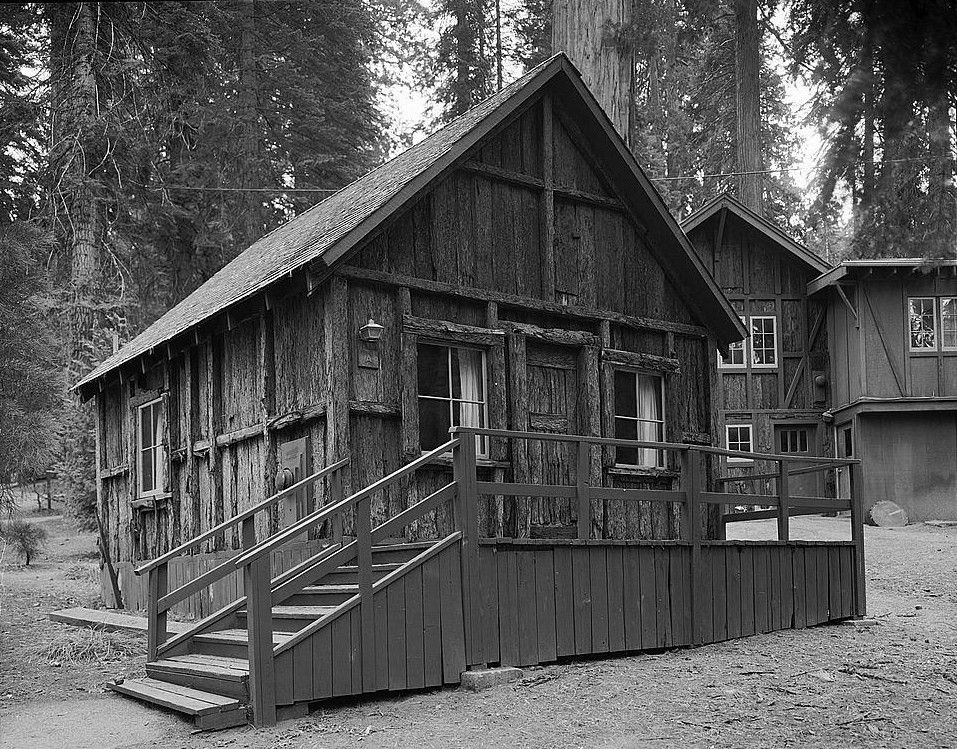 Former Cabin A at Giant Village Lodge — Sequoia National Park, California, USA (demolished). A 1984 HABS—Historic American Buildings Survey of California image.